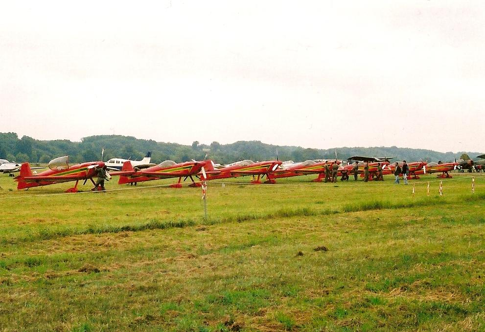 Planes of Marche Verte aerobatic team on Dierre meeting